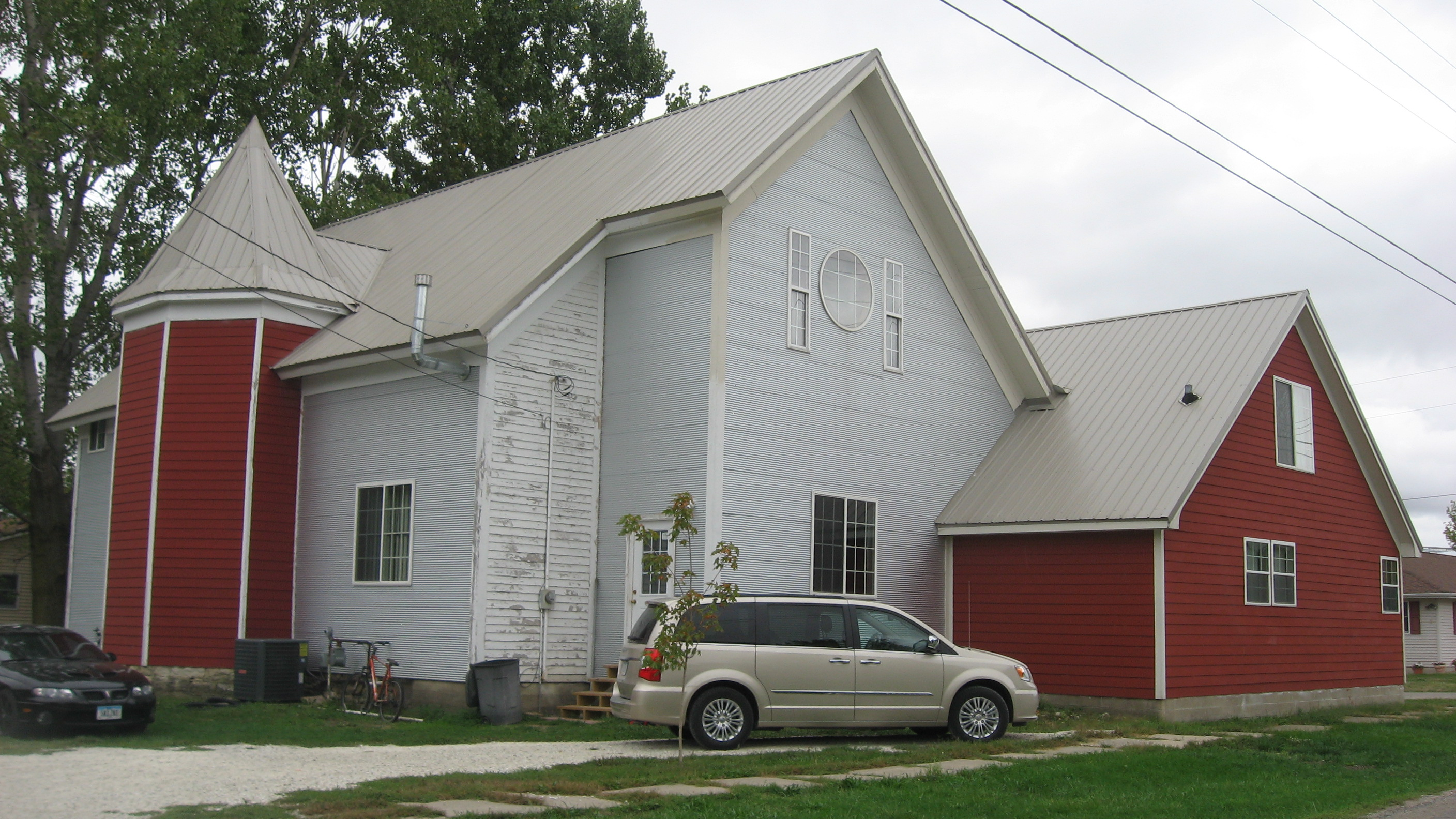 View from the southwest of the former Morning Sun Reformed Presbyterian Church (now a residence), located on the northeastern corner of the junction of Blair and Southeast Third Streets in Morning Sun, Iowa, United States.